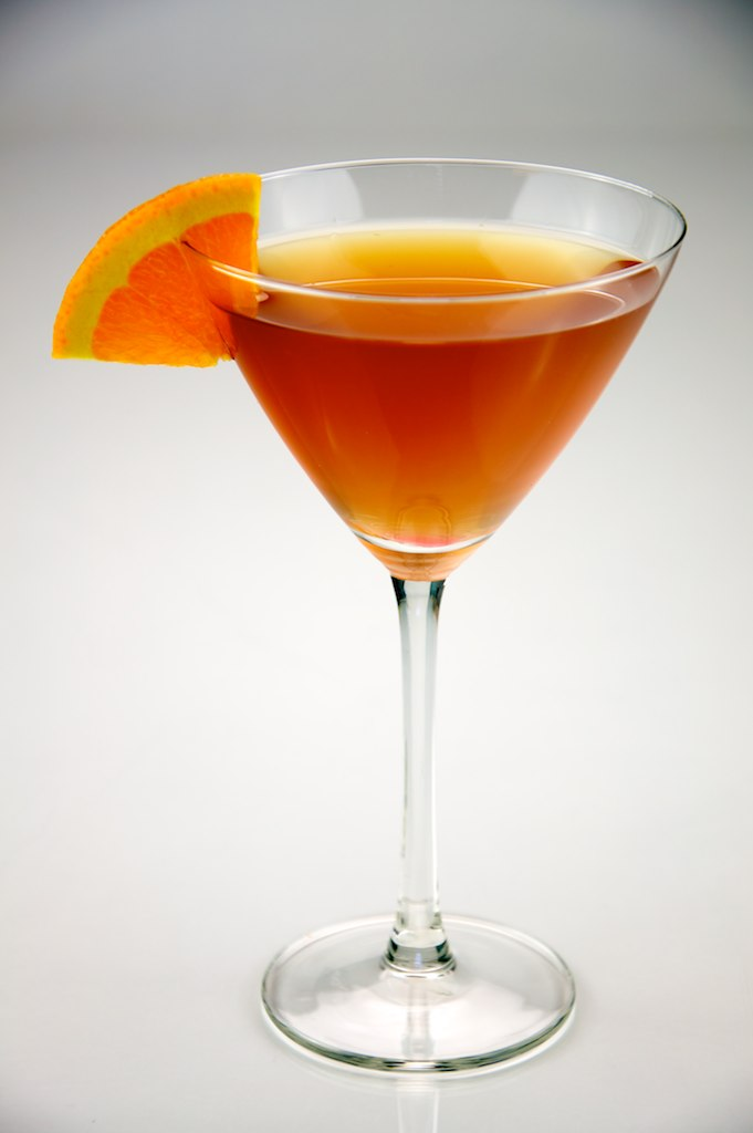 Sidecar cocktail in a martini glass garnished with an orange wedge. Made with cognac, orange liqueur, and lemon juice.